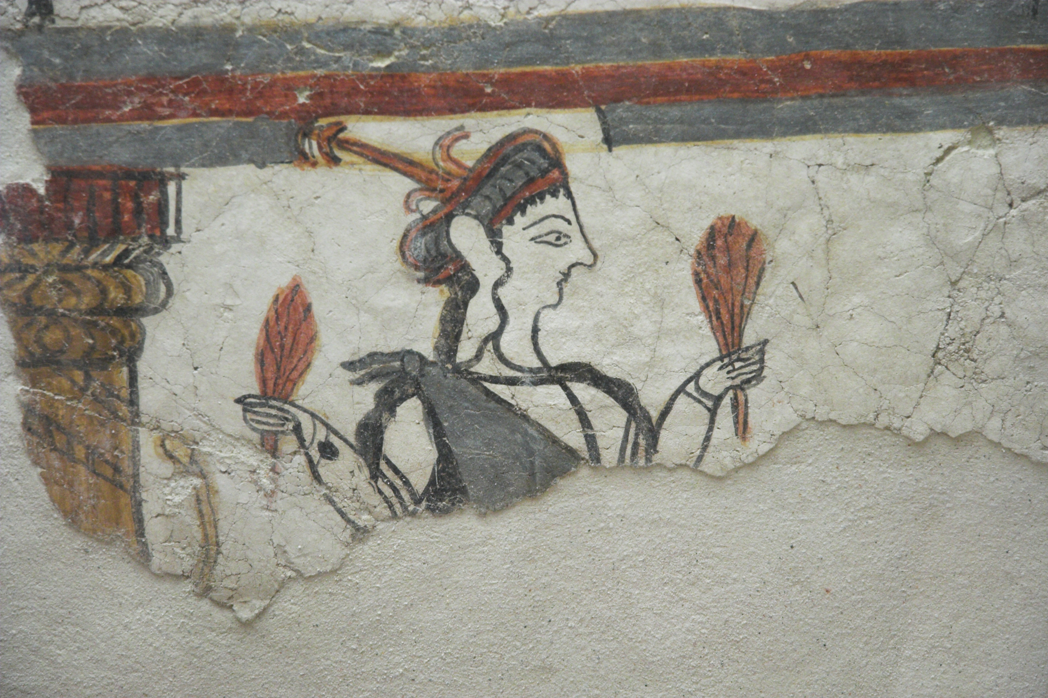 The fresco goddess or priestess with spikes, 1250-1180 BC. Archaeological Museum of Mycenae, MM385.